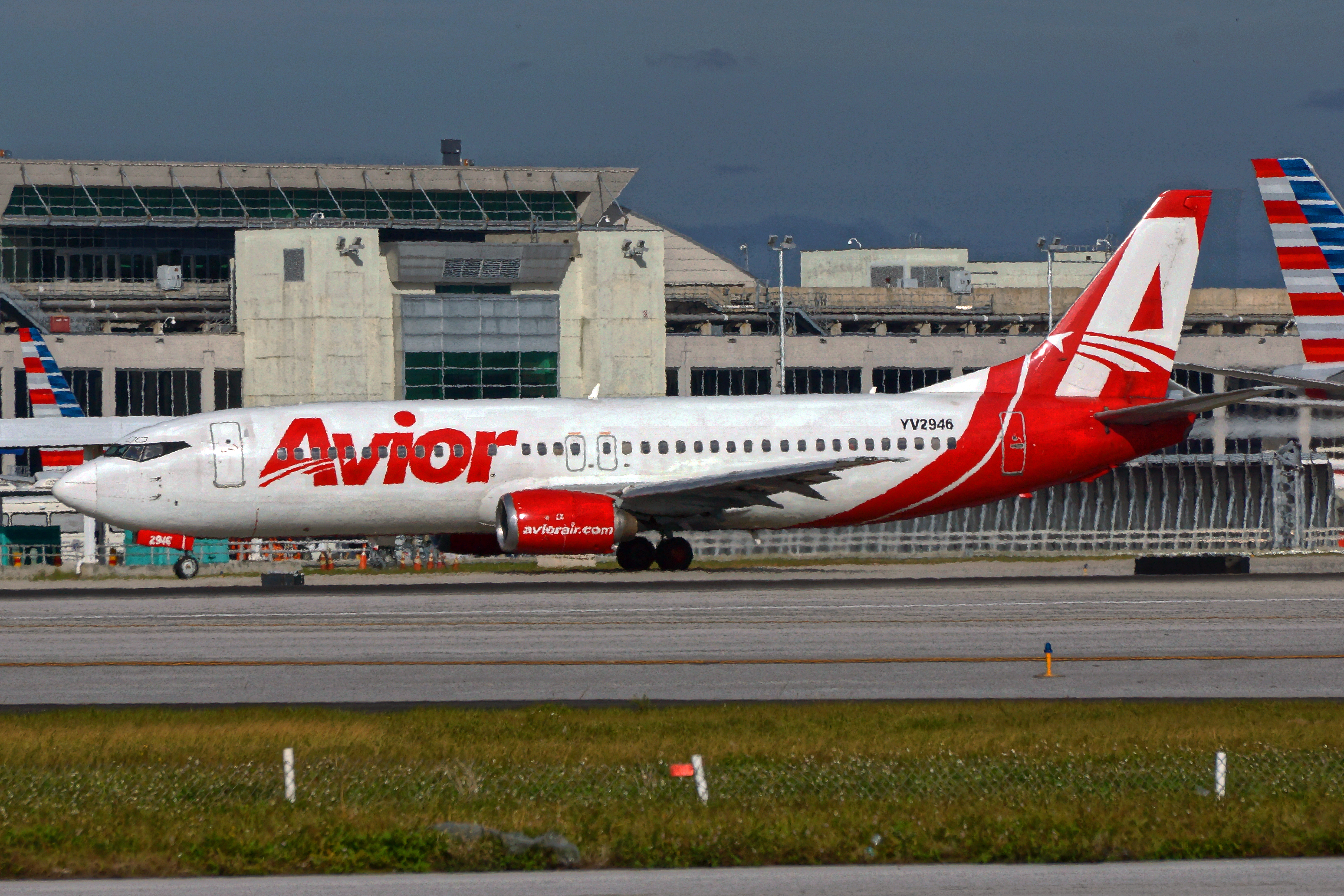 From my newly formed "Heat-Haze as art" collection